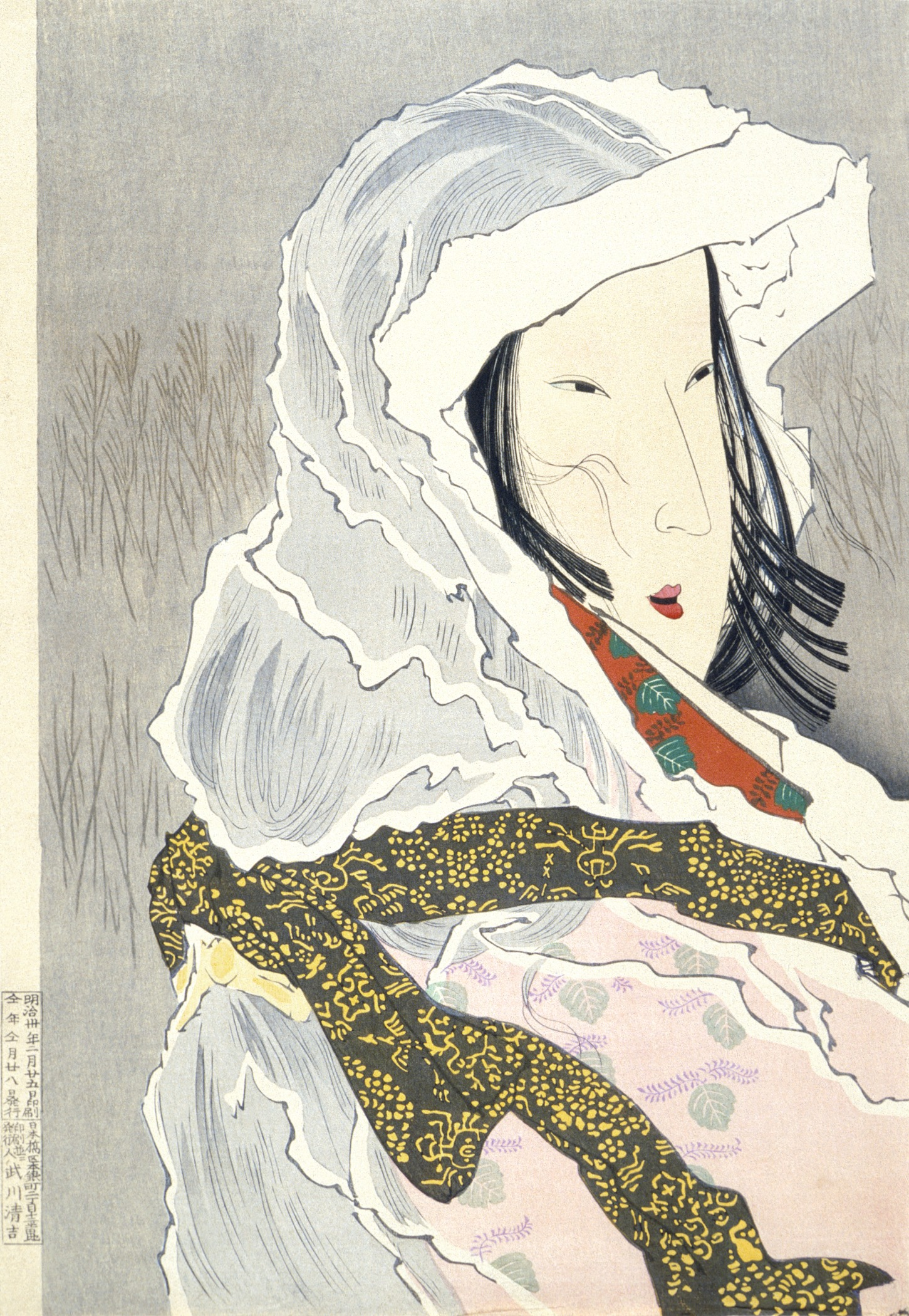 Japan, 1897 Series: Ancient Patterns Prints; woodcuts Triptych; color woodblock prints Gift of Carl Holmes (M.71.100.58a-c) Japanese Art